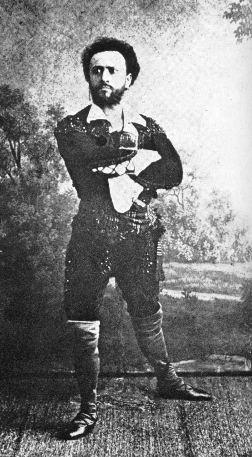 Paul Lhérie as Don José in Georges Bizet's 1875 opera Carmen, a role he created on 3 March 1875